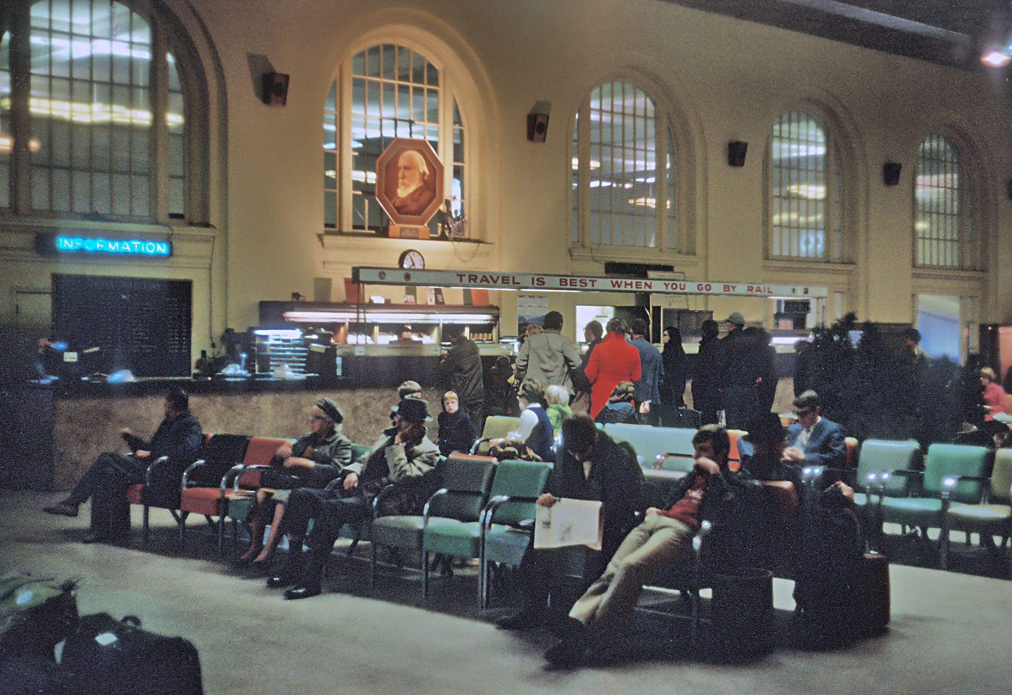 Great Northern Station, Minneapolis, with a picture of who else but James J. Hill in April 1971.